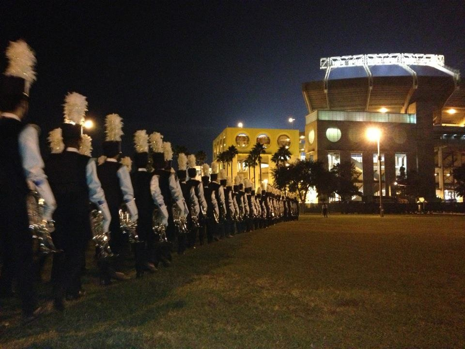 The University High School Marching Band enters the Citrus Bowl for performance.